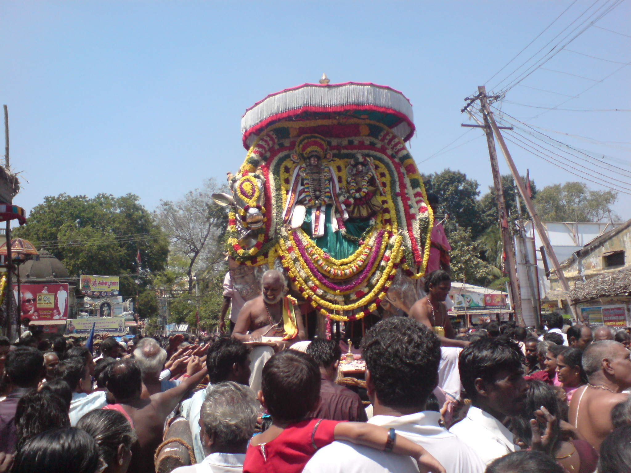 Masimagam